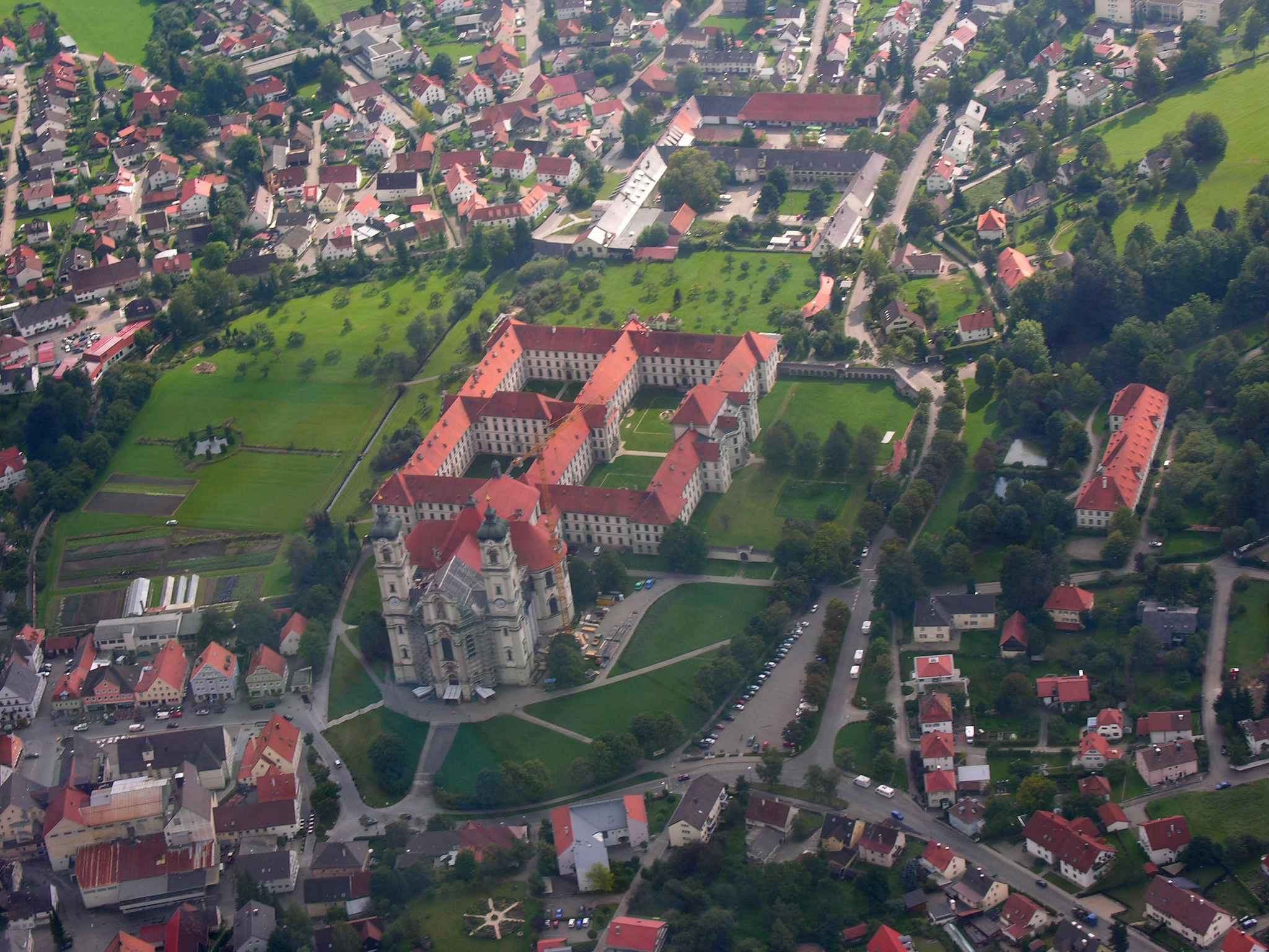 Germany, Aerial view of Ottobeuren